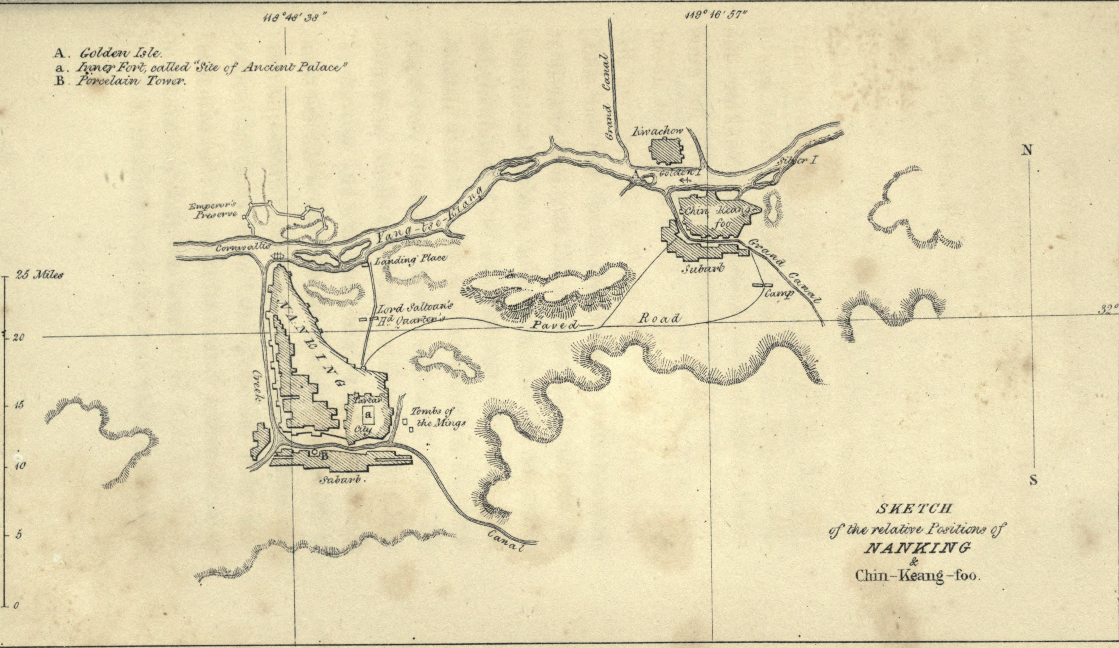 Sketch of the relative positions of Nanking and Chin-Keang-foo.